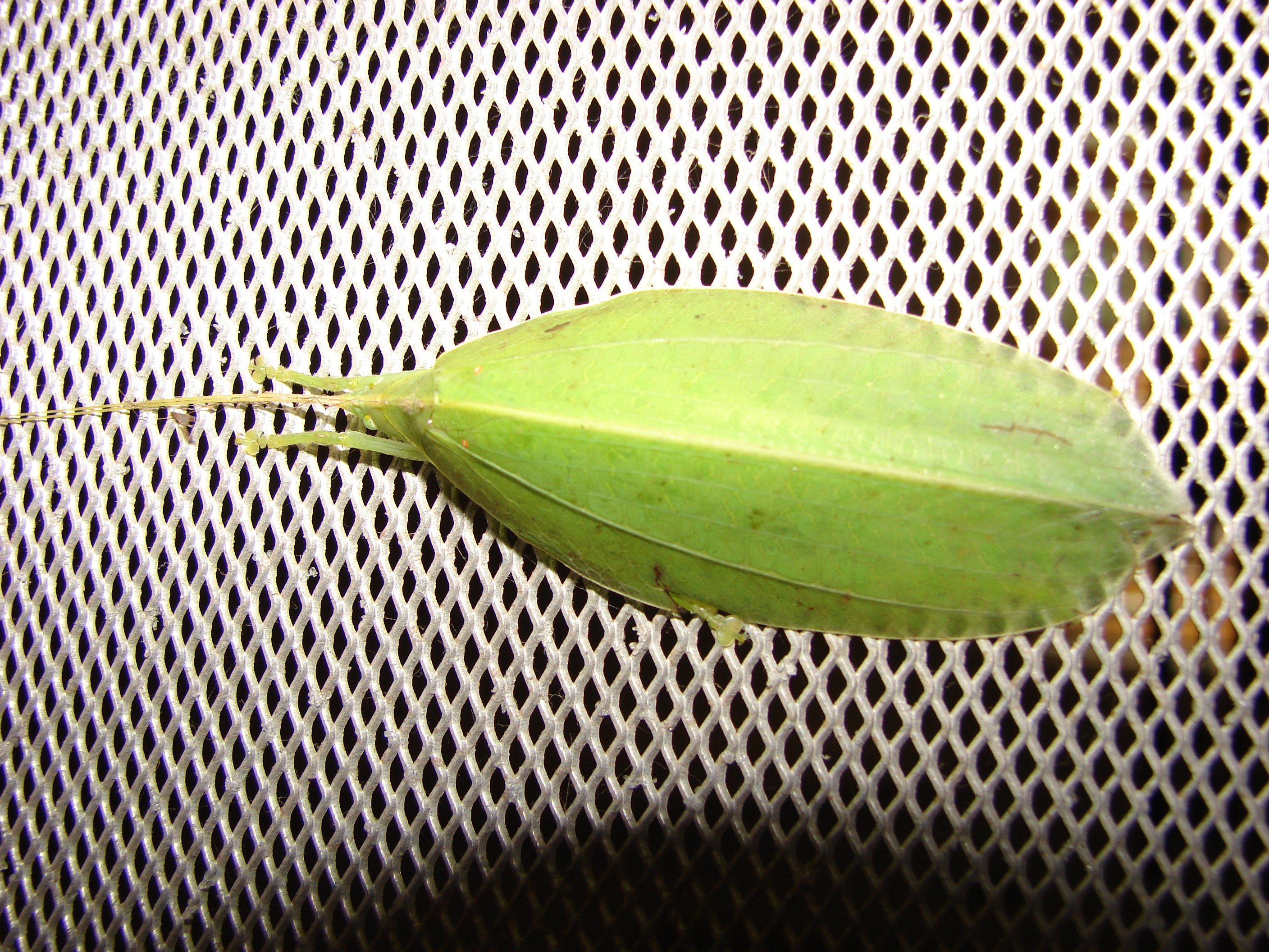 Green Leaf-Mimic Katydid, Aegimia Elongata